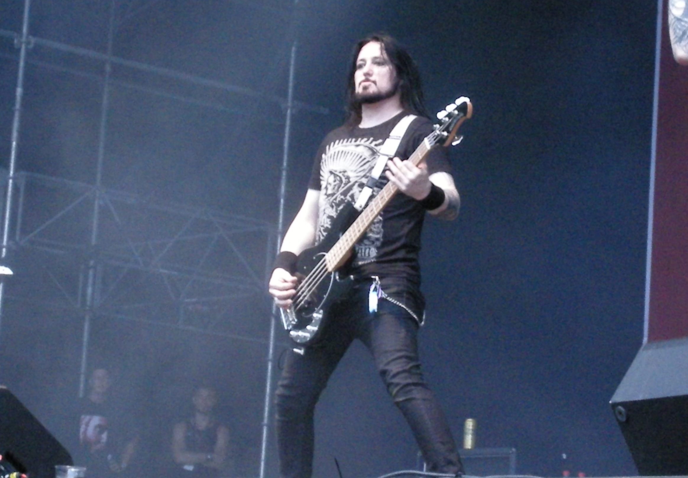 Steve Drennan, bass player of Engel, performinga at Skogsröjet, Rejmyre, Sweden 2012